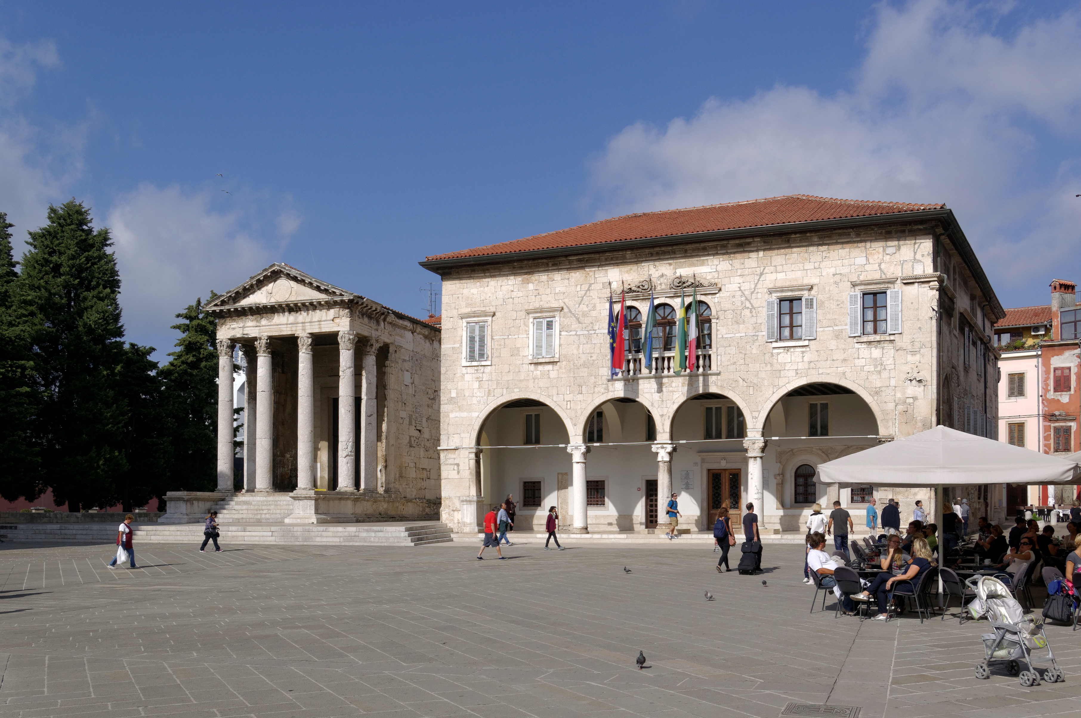 Croatia, Pula, forum with Temple of Roma and Augustus and town hall